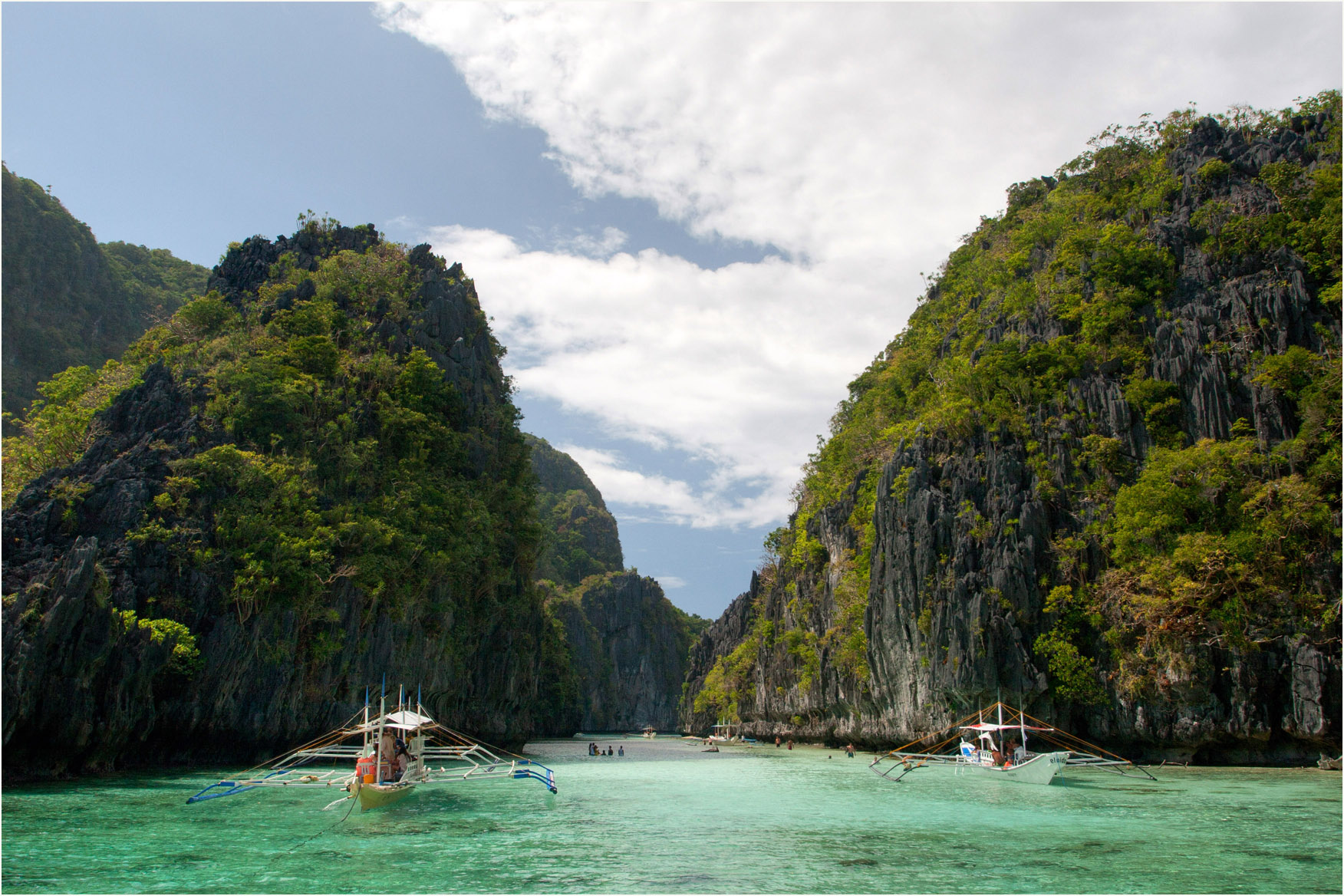 Big lagoon entrance, Miniloc island